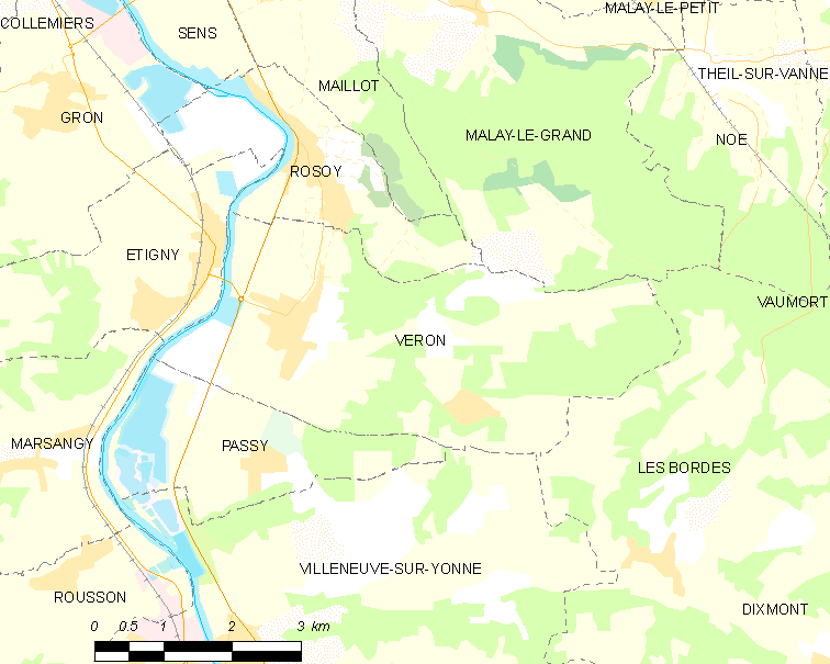 Map of French municipality Véron